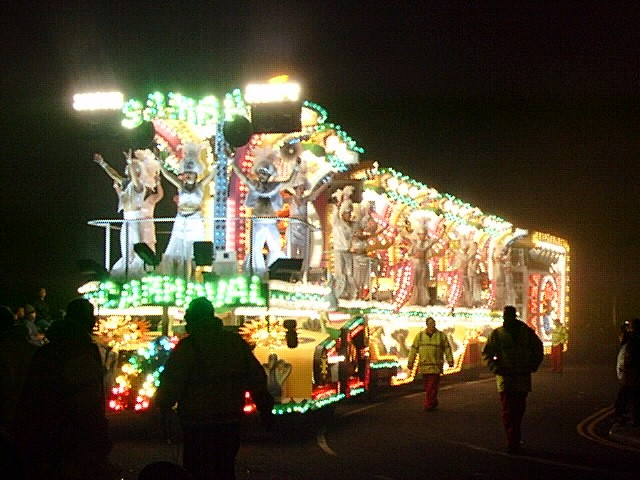 "Samba Carnival" by Harlequin CC, Burnham on Sea Carnival 2006